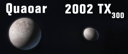 Basic size comparison between dwarf planet candidates Quaoar and 2002 TX300. Given the icy low density of TX300, it is remotely possible that it is in hydrostatic equilibrium. Proper colors and albedos not accounted for.